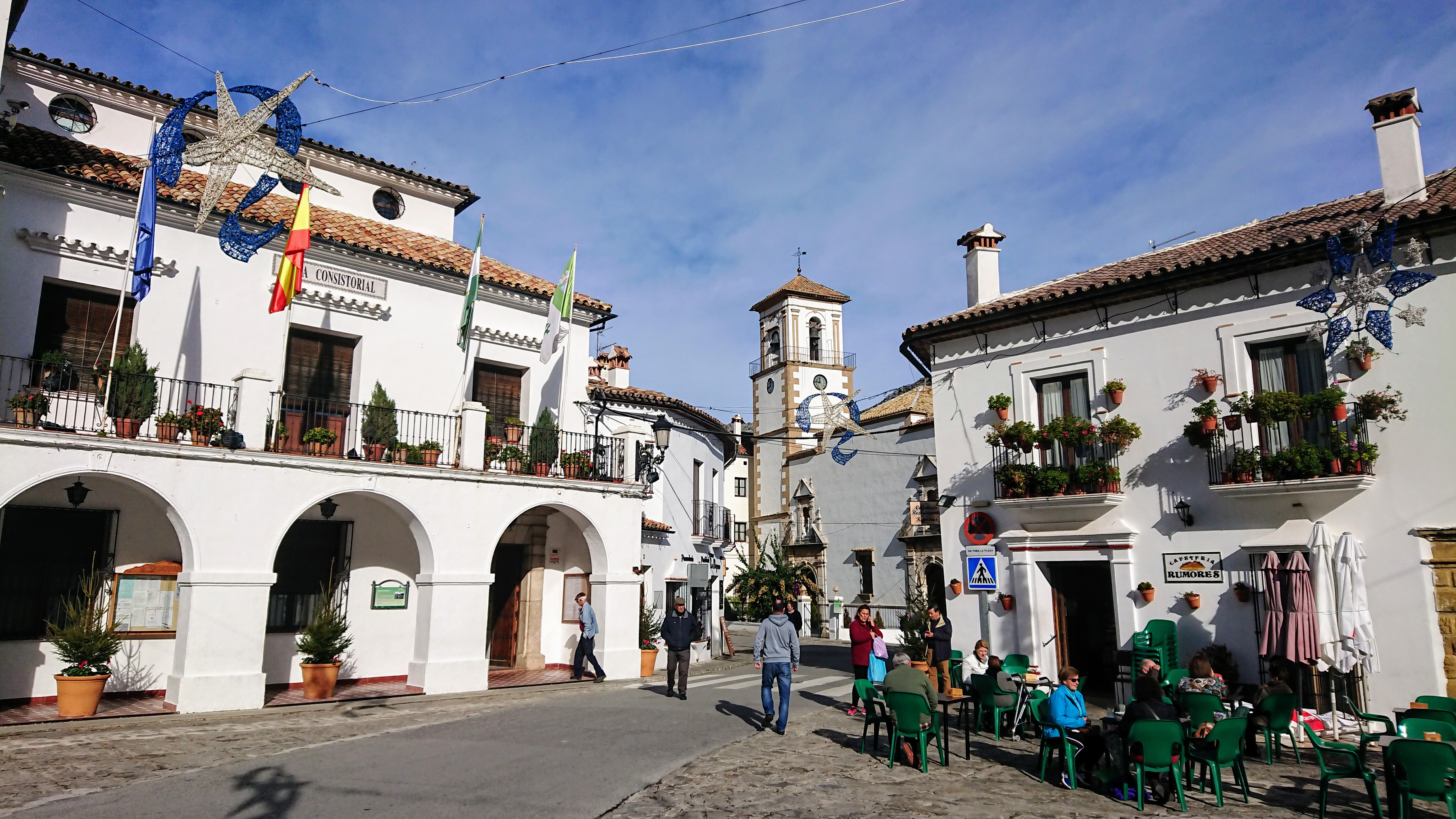 Grazalema city hall, Grazalema (Spain)